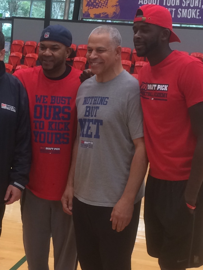 Steve Carfino in Perth with the No1 Draft Pick Basketball Academy